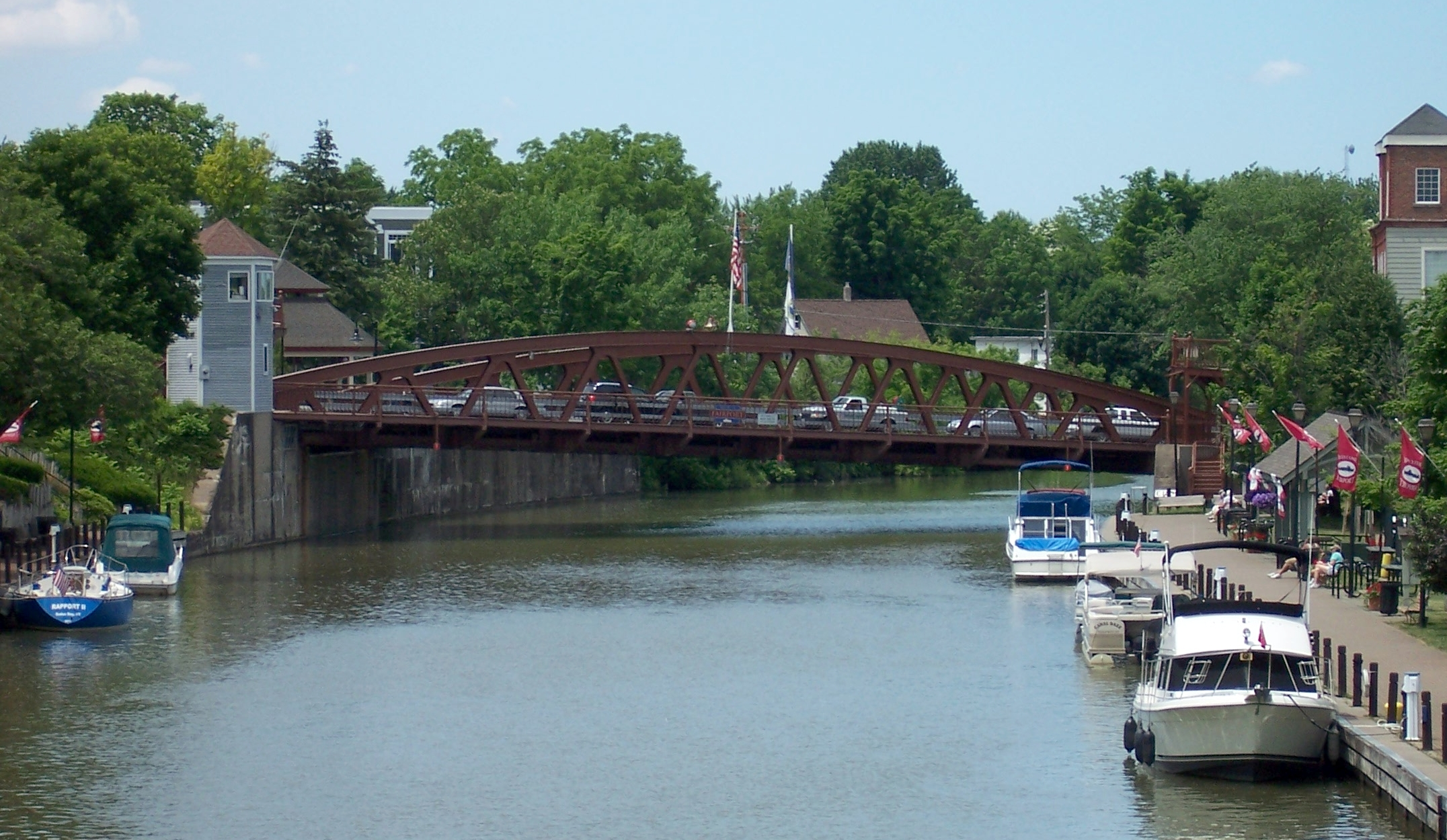 The lift bridge in Fairport, New York that carries Main Street (State Route 250) over the Erie Canal. The camera is facing roughly west. This is the only lift bridge on the canal that incorporates a slope; the south side of the bridge is higher than the north side. The Box Factory building is at the extreme right of the image, and the Fairport Gazebo can be seen behind the bridge control tower on the left.